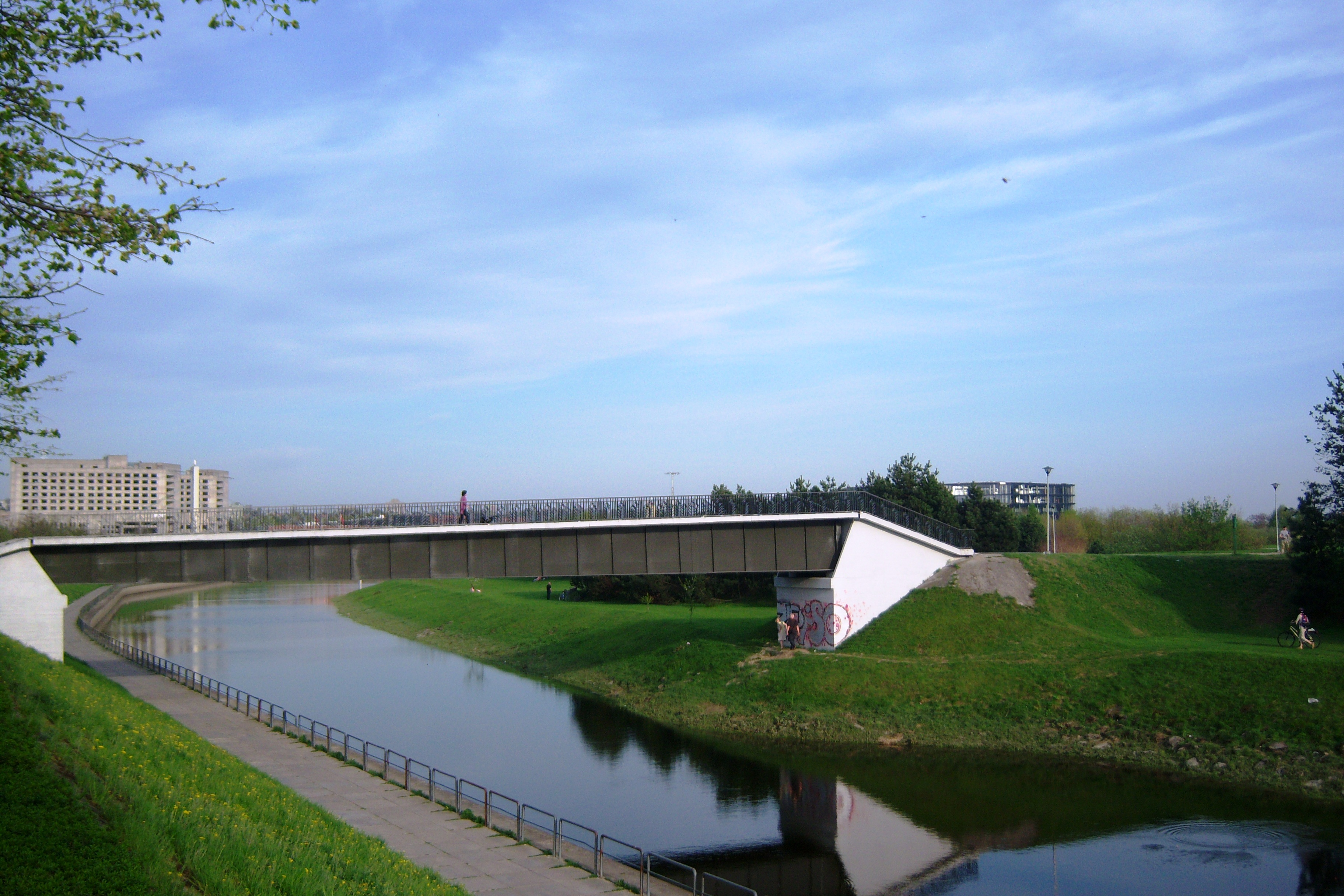 Footbridge to Nemunas Island (near Maironio Street), Kaunas, Lithuania